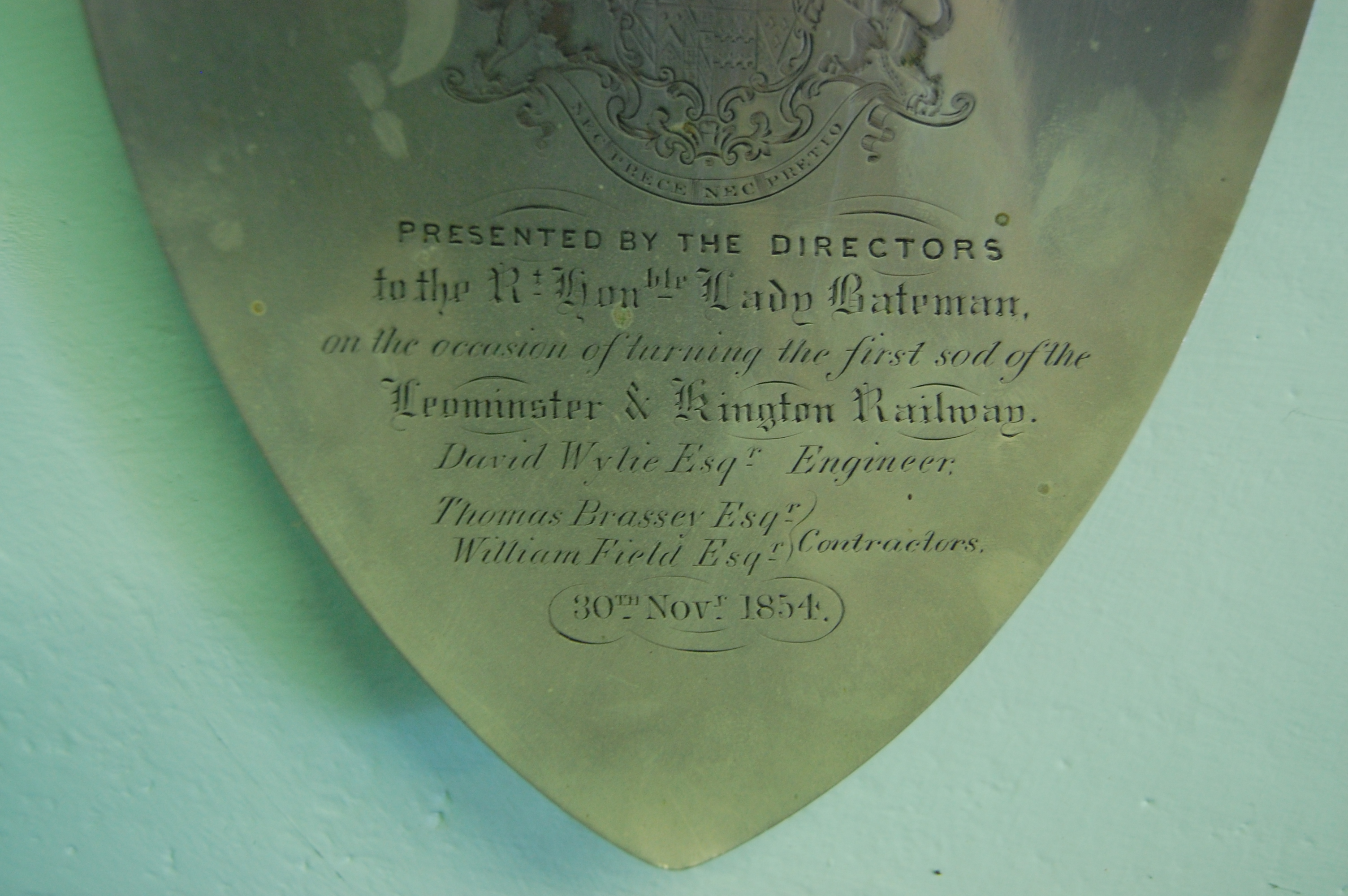 Commemorative shovel used at the turning of the first sod of the Leominster and Kington Railway, now in Leominster Museum. PRESENTED BY THE DIRECTORS to the Rt Honble Lady Bateman on the occasion of turning the first sod of the Leominster & Kington Railway David Wylie Esqr Engineer Thomas Brassey Esqr William Field Esqr Contractors 30TH Novr 1854.